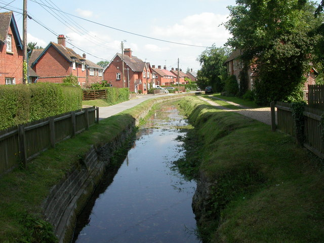 Cranborne, River Crane In its upper reaches, the Crane is a winterbourne: almost dry or very feeble in the summer, flowing freely in the winter. Seen here looking downstream along Water Street.